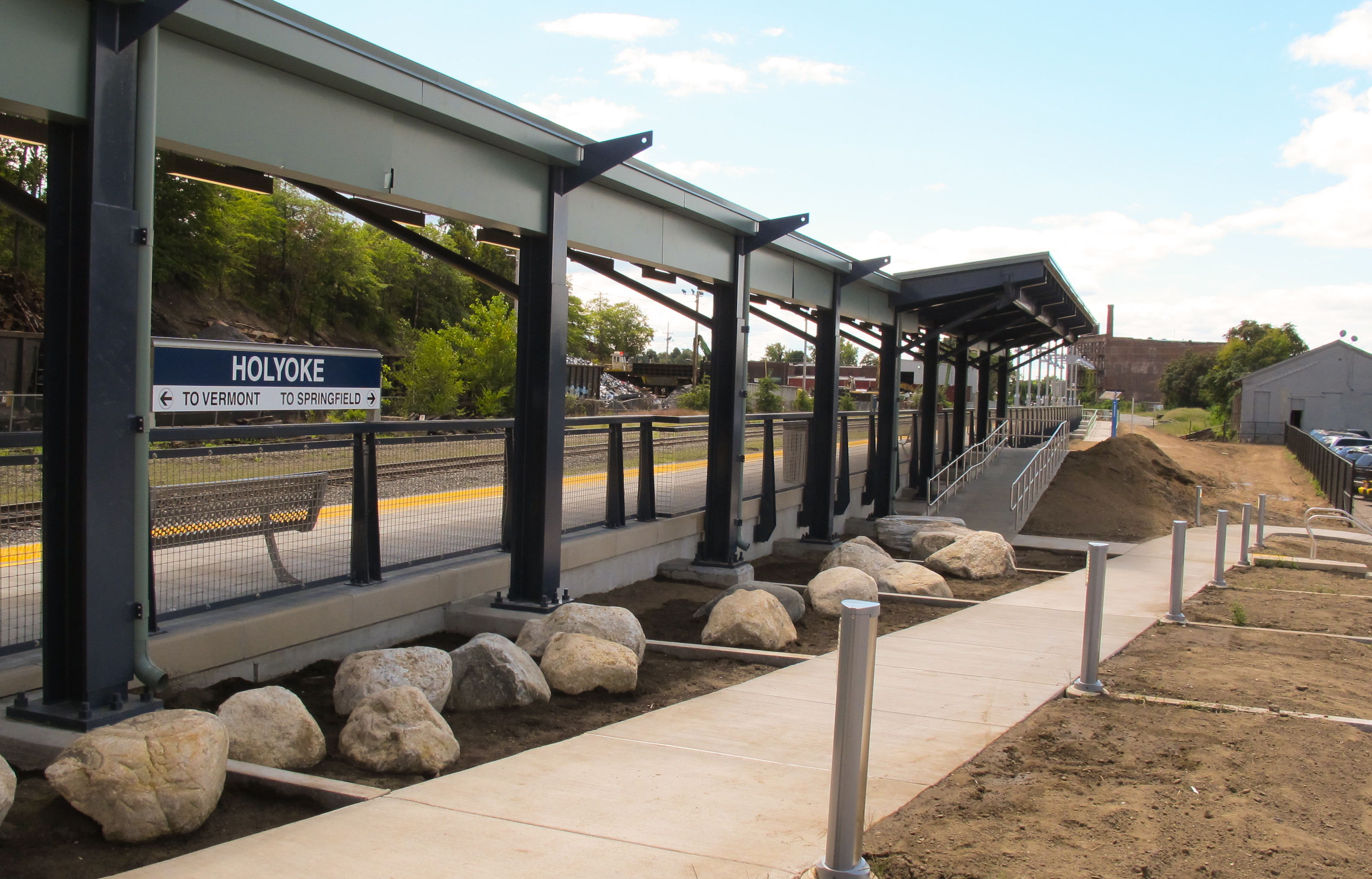 An image of the new Depot Square Railroad Station in Holyoke, Massachusetts on opening day.